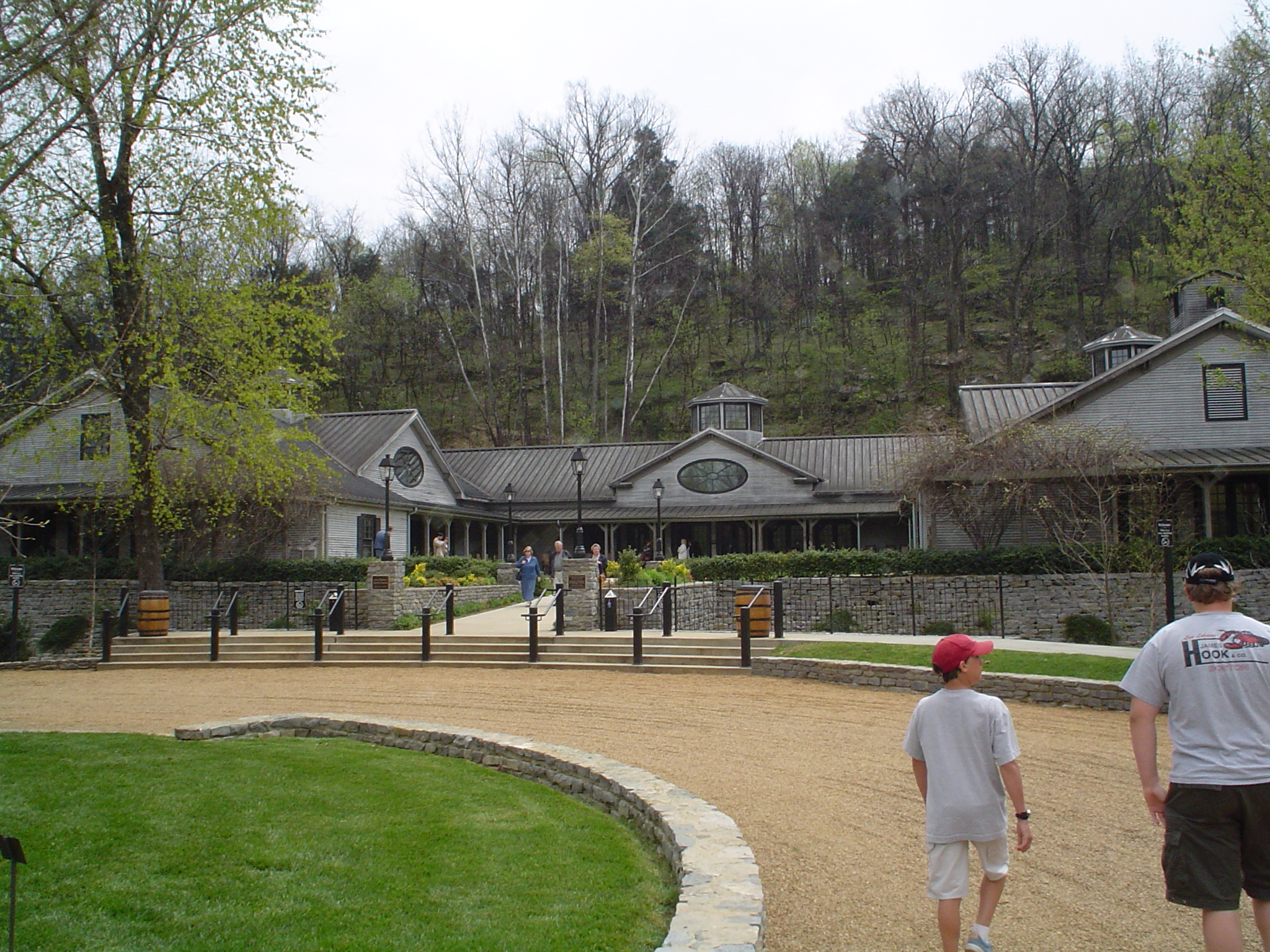 The front entrance to the vistors area of the Jack Daniel's Distillery in Lynchburg, Tennessee, USA.